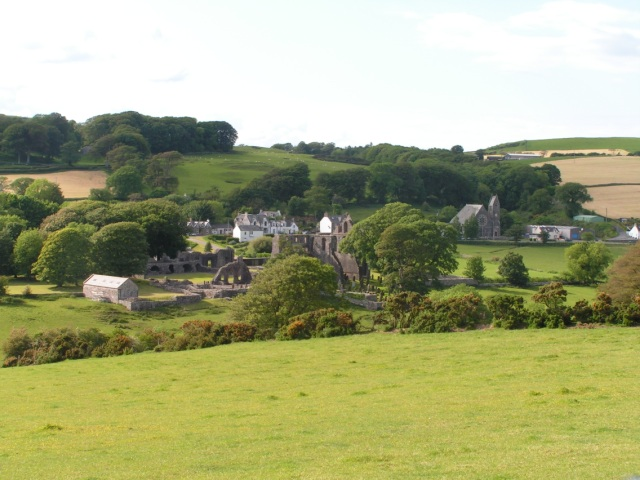 Dundrennan Village The village with the Abbey ruins and the Church visible